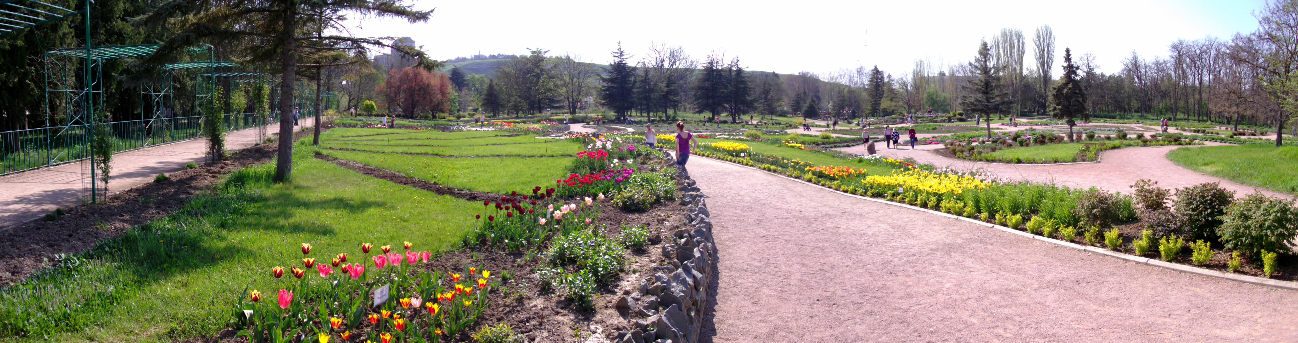 The botanical garden of the Taurida National Vernadsky University in Vorontsovsky park in Simferopol, the capital city of the Autonomous Republic of Crimea, Ukraine.